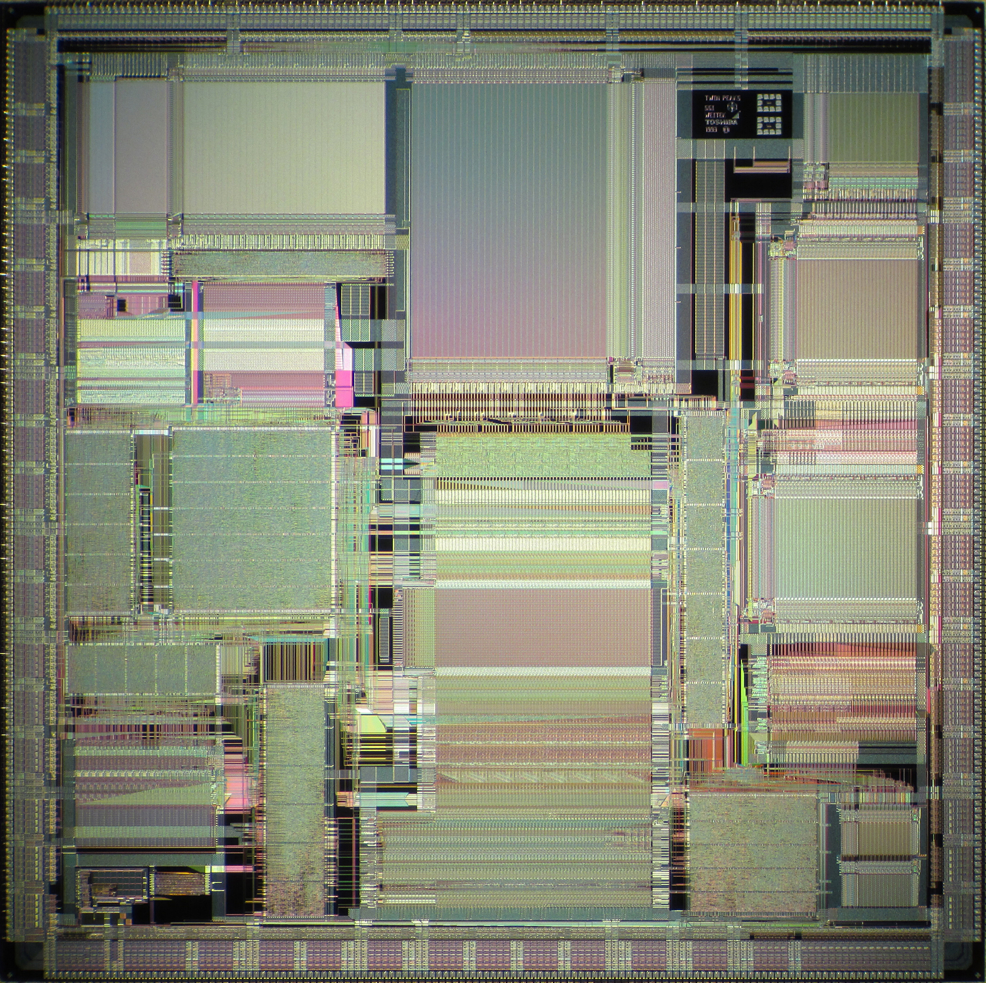 Die shot of Toshiba T5F55 that is R8000 MIPS microprocessor.